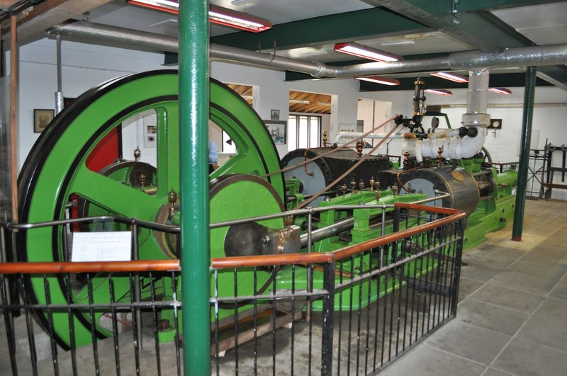 Vickers Armstrong 150 HP Horizontal Cross Compound Hydraulic Pumping Engine, near to Forncett st Mary, Norfolk, Great Britain. The high pressure steam cylinder can be seen on the right with the low pressure on the left, using the steam twice to be more efficient. Built in 1942 by the famous Vickers Armstrong Ltd in their Elswick works, Newcastle upon Tyne. It was designed to top up the accumulators in tower bridge, London TQ3380 : Tower Bridge .It was the third engine added, as a precaution against bombing damage to the other engines. It is a 150 HP horizontal cross compound hydraulic pumping engine, Number SE1190SE. Power comes from one 18" high pressure and one 30" low pressure by 27" stroke cylinder. The engine drove two pumps by the piston tail rods, 750 pounds per square inch of pressure was developed which pumped up hydraulic accumulators. The accumulators stored hydraulic pressure which was released to up to eight hydraulic engines when the two 1000 ton road bascule sections were required to be raised for shipping. With modernisation in 1974 the engine was made redundant and thankfully donated to the Forncett steam museum.